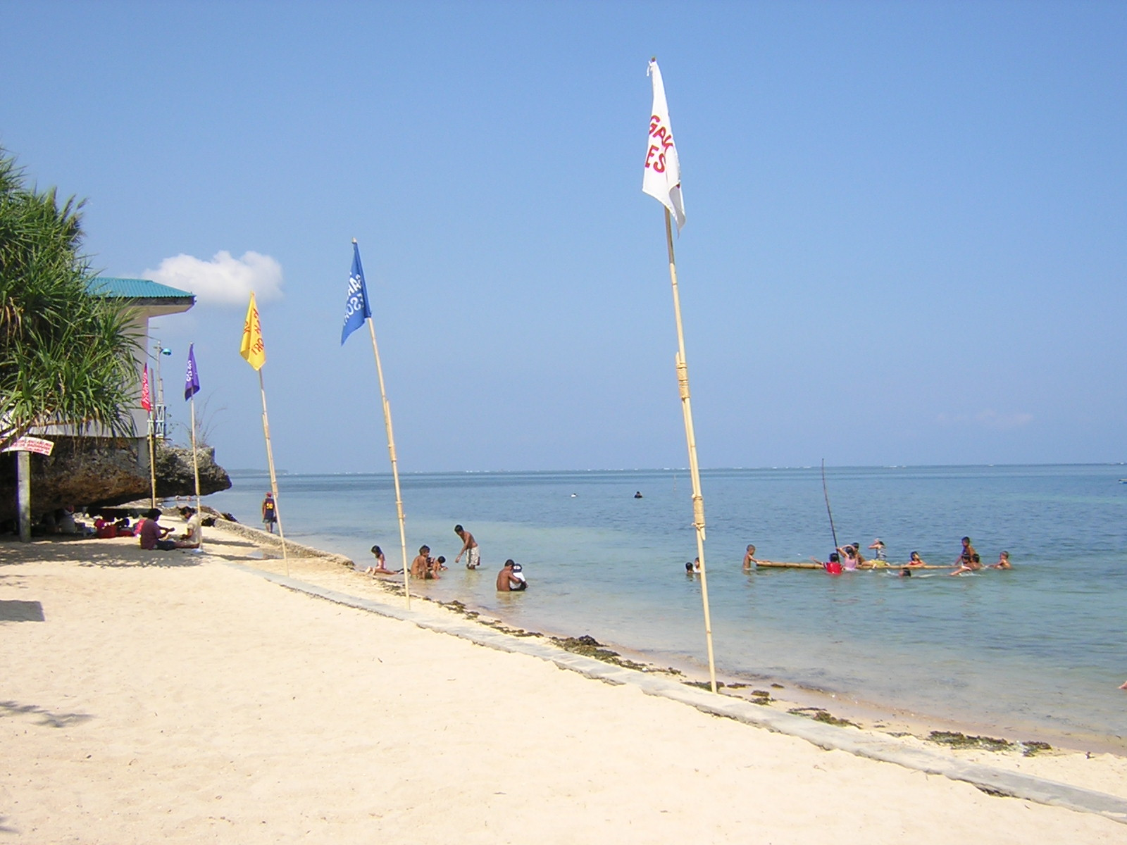 Picture taken by Jhun Taboga, Rock Garden, Bolinao, Pangasinan Summary Picture taken by Jhun Taboga, Rock Garden, Bolinao, Pangasinan